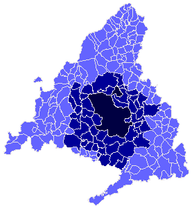 Community of Madrid´s transport zones